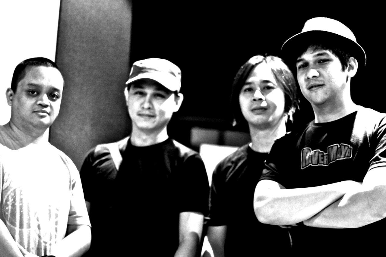 rivermaya september 2011